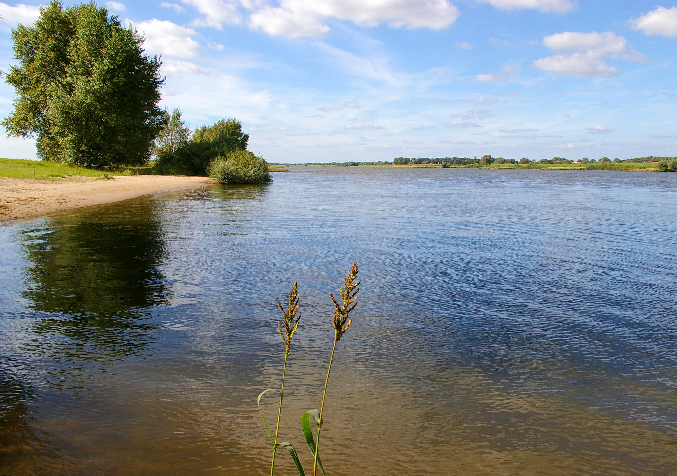 The Elbe River at German river KM 503 near the small town of Dömitz (in the background). The left bank belongs to Lower Saxony, the right bank to Mecklenburg-Western Pomerania.